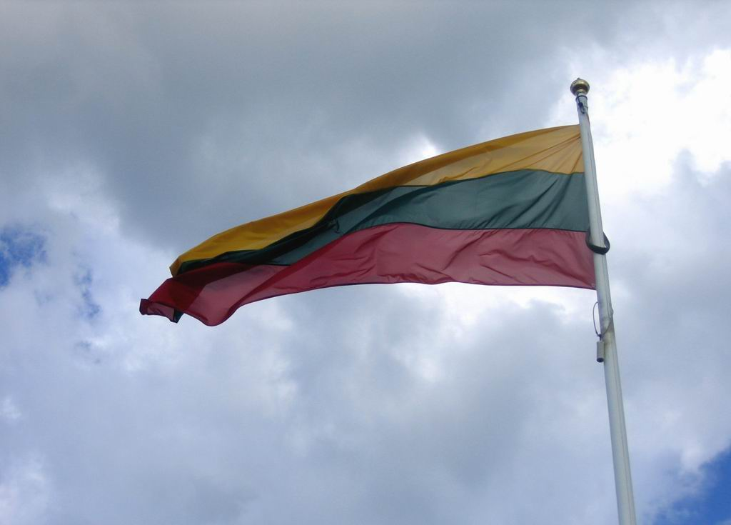 The Lithuanian flag, atop the Gediminas Tower, Vilnius.